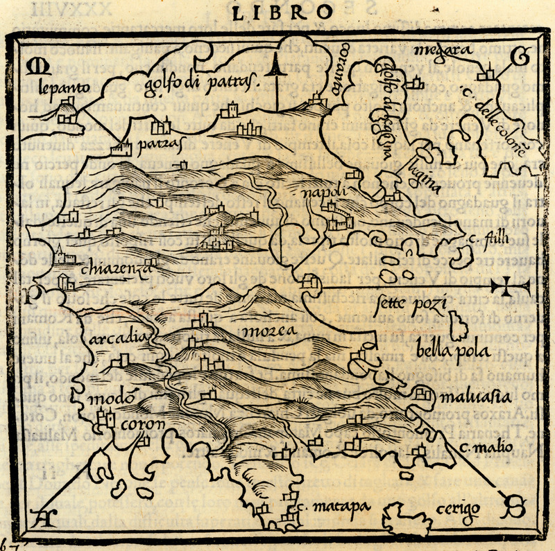 Isolario di Benedetto Bordone nel qual si ragiona di tutte l'isole del mondo, con li lor nomi antichi & moderni, historie, favole, & modi del loro vivere, Venice 1547.